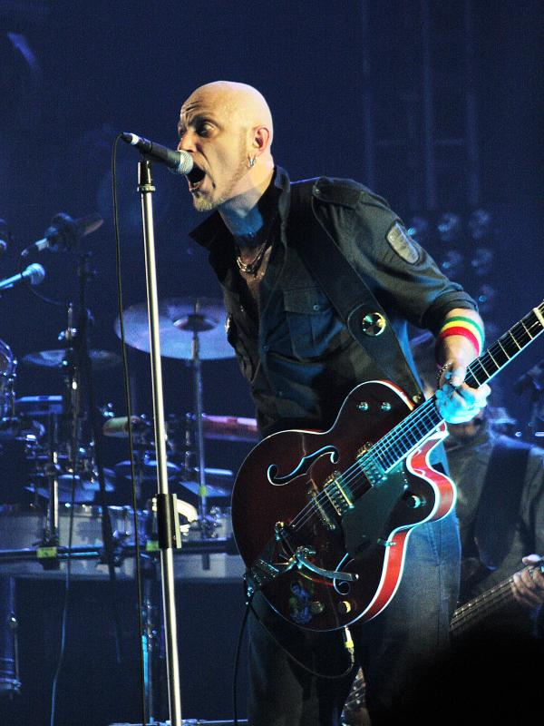 Negrita (Pau) Bologna - Futurshow